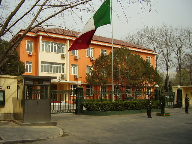 Mexican Embassy in Beijing - Sanlitun Dongwujie #5, Chaoyang, C. P. 100600, Beijing, People's Republic of China